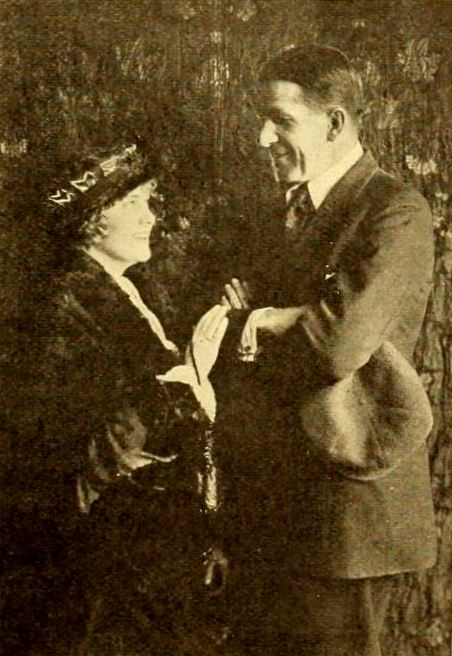 Still from the film serial The Midnight Man (1919) with Kathleen O'Connor and James J. Corbett, on page 1061 of the February 22, 1919 Moving Picture World.